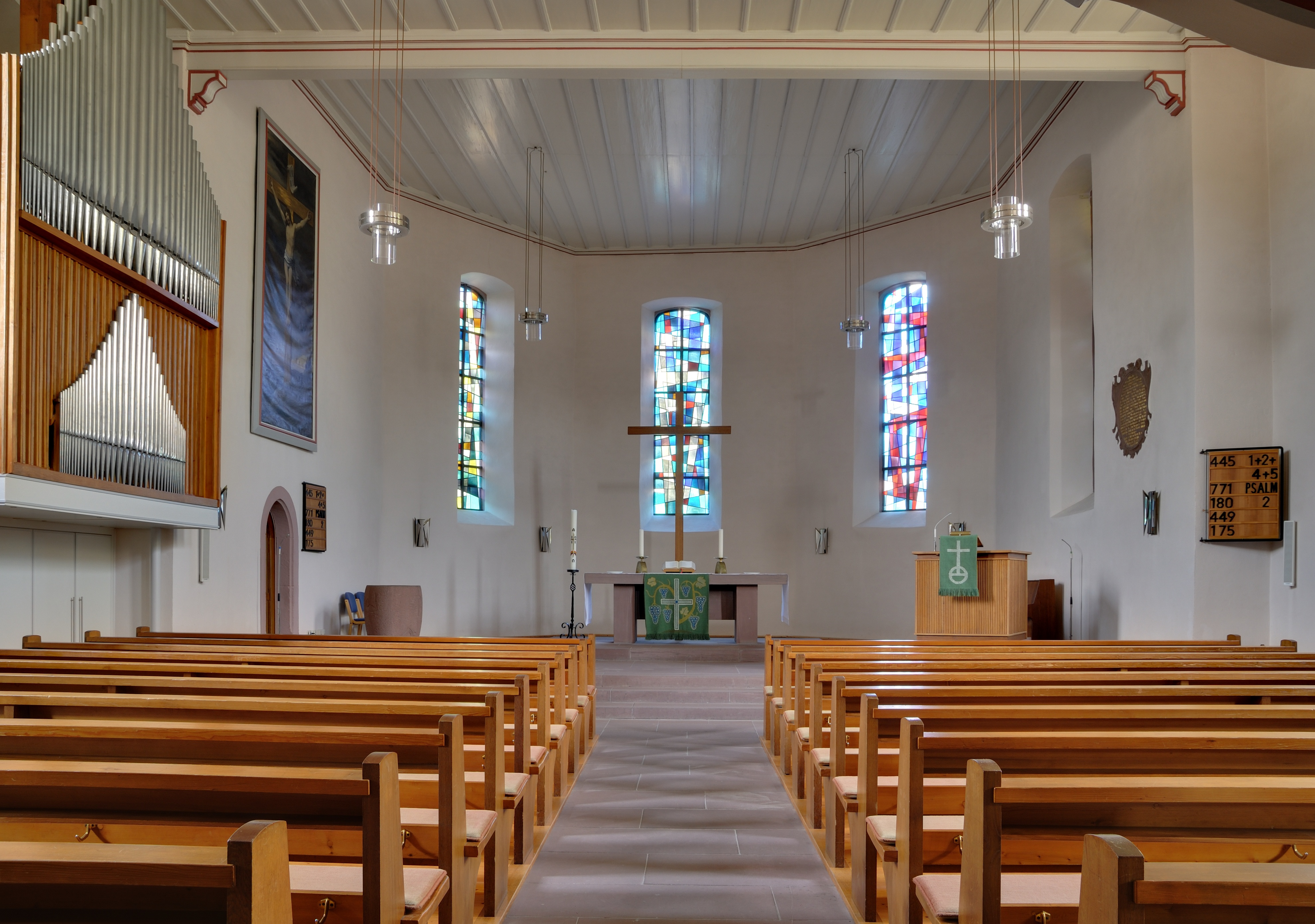 Steinen: Protestant Church